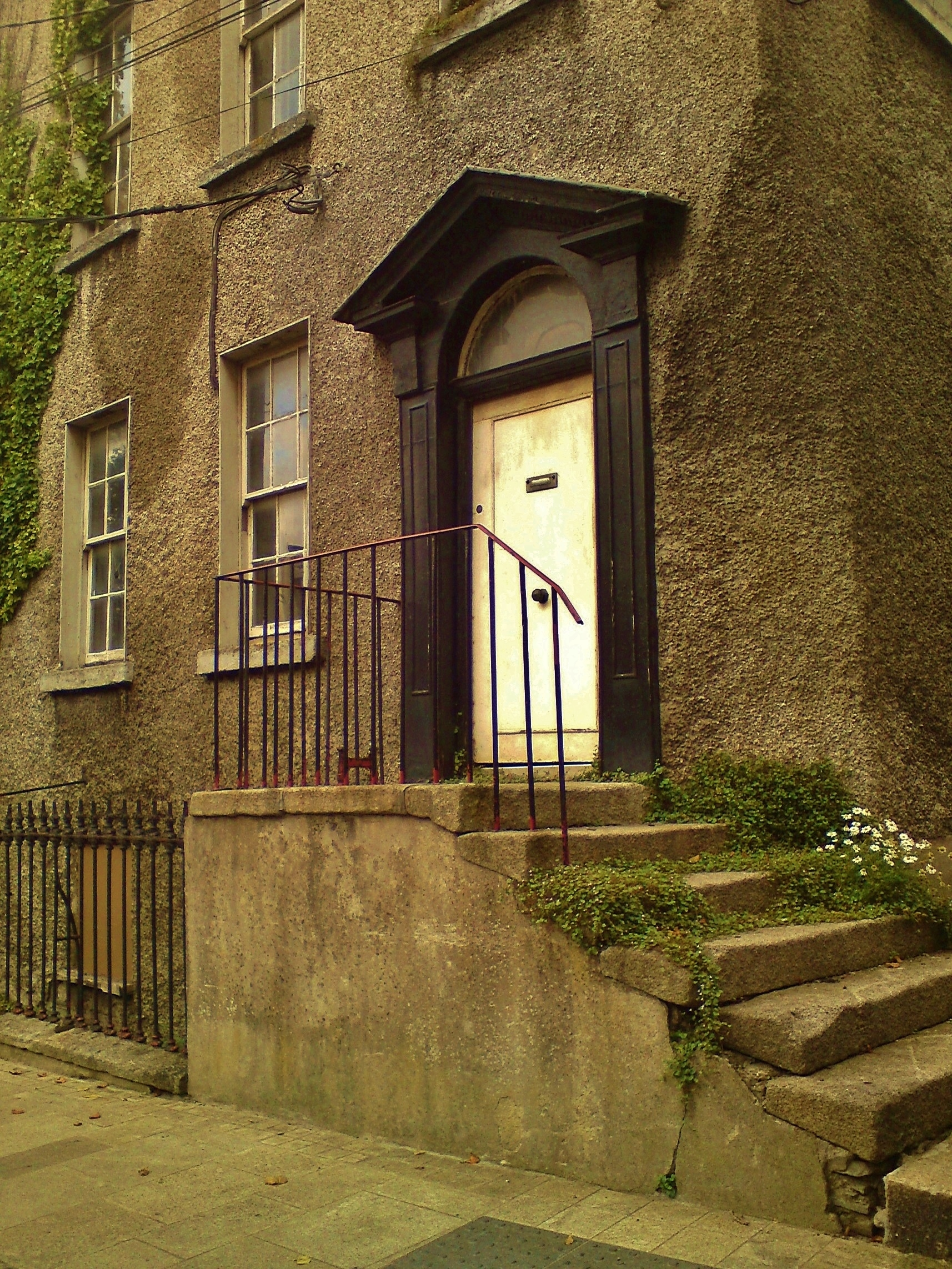 Childhood home of Irish author Sheridan Le Fanu (1814-1873) and located in the old village of Chapelizod, Dublin city. Photographed by Damien Slattery